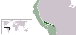 Locator map for the Anti Suyu